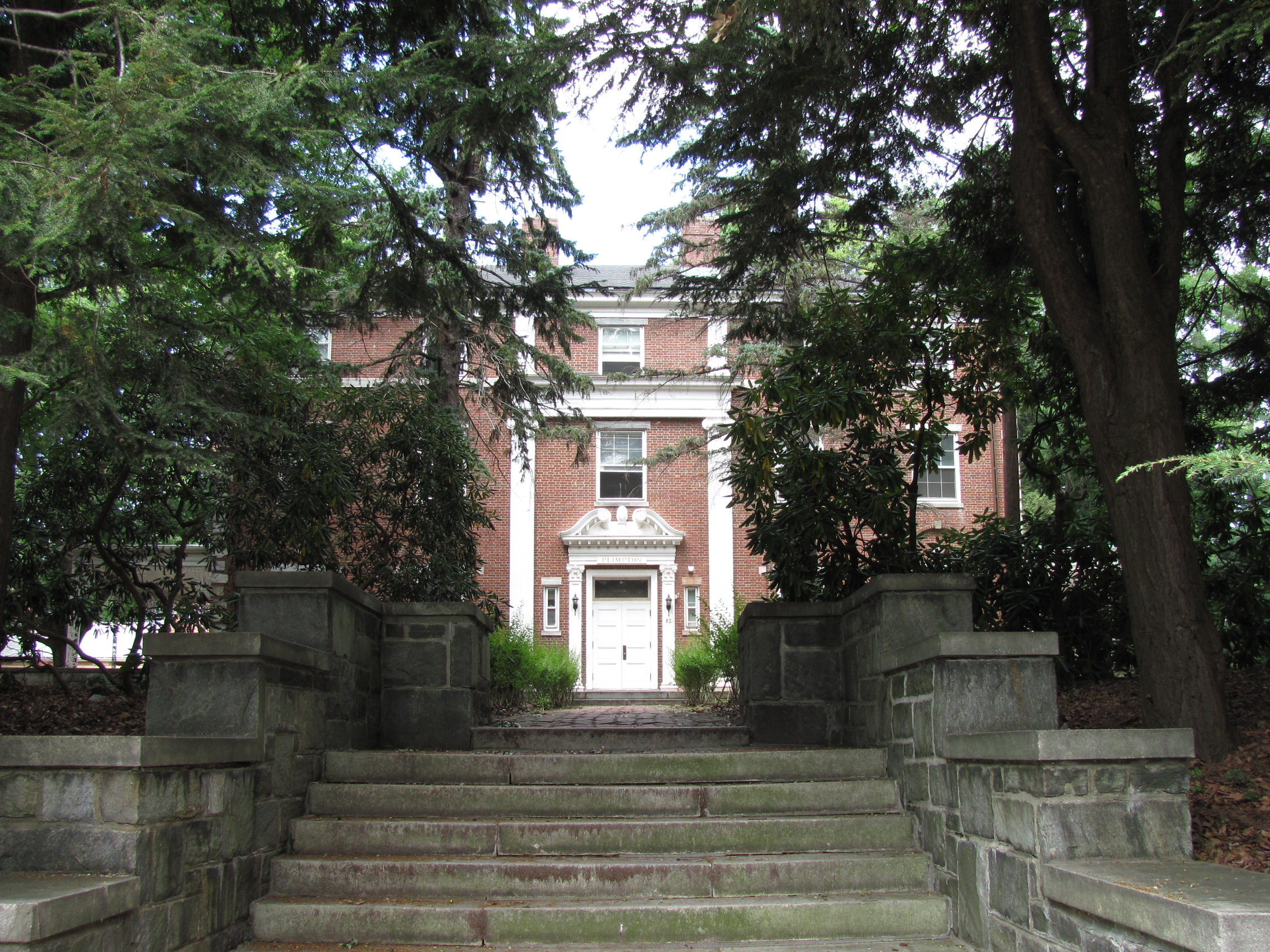 Plimpton House, Amherst Massachusetts